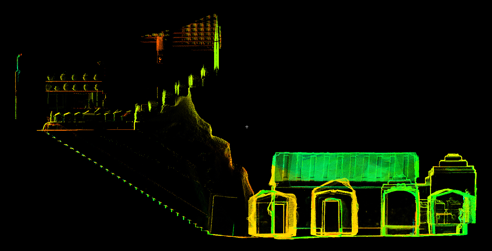 3D view, facing west, of the Hypogeum of the Volumnis, Perugia, Italy, cut from a laser scan. A small vestibule rests atop the Hypogeum, containing several artifacts from surrounding tombs and a door to the steep staircase shown here. This is the only entrance to the tomb of the Velimna family (translated to Volumnius in Roman); it descends 5.3 meters underground over 30 steps through a travertine doorway into the main central chamber, or atrium. From this point the layout of the Hypogeum mimics a traditional Etruscan house, bordered by lateral chambers (two alae and six cellae) with a tablinum at the far end of the chamber. Of particular note is the form of the ceiling of the central atrium. Here the carved limestone ceiling explicitly mimics the interior form of the traditional wood framed Etruscan house, sloped in two directions from a central ridge beam, complete with correctly placed rafters, joists, and planks. The ceilings of the right ala and the tablinum likewise have the forms of coffered ceilings constructed of wood.